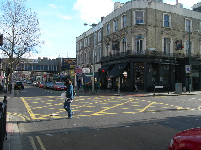 Kilburn High Road, NW6 At the junction of Cavendish Road and Iverson Road. Brondesbury Station is ahead.